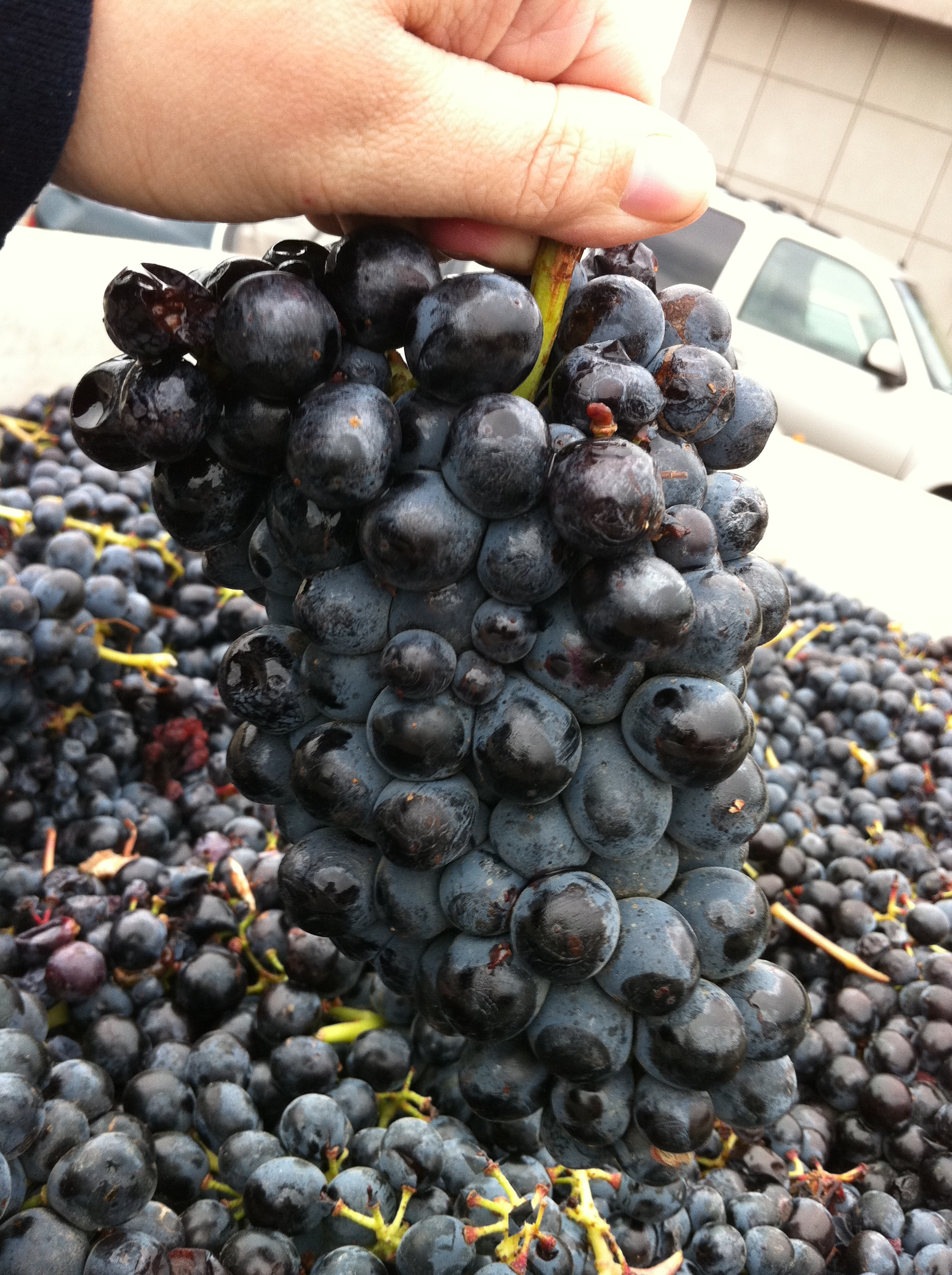 Cluster of Barbera grown in the Columbia Valley of Washington State